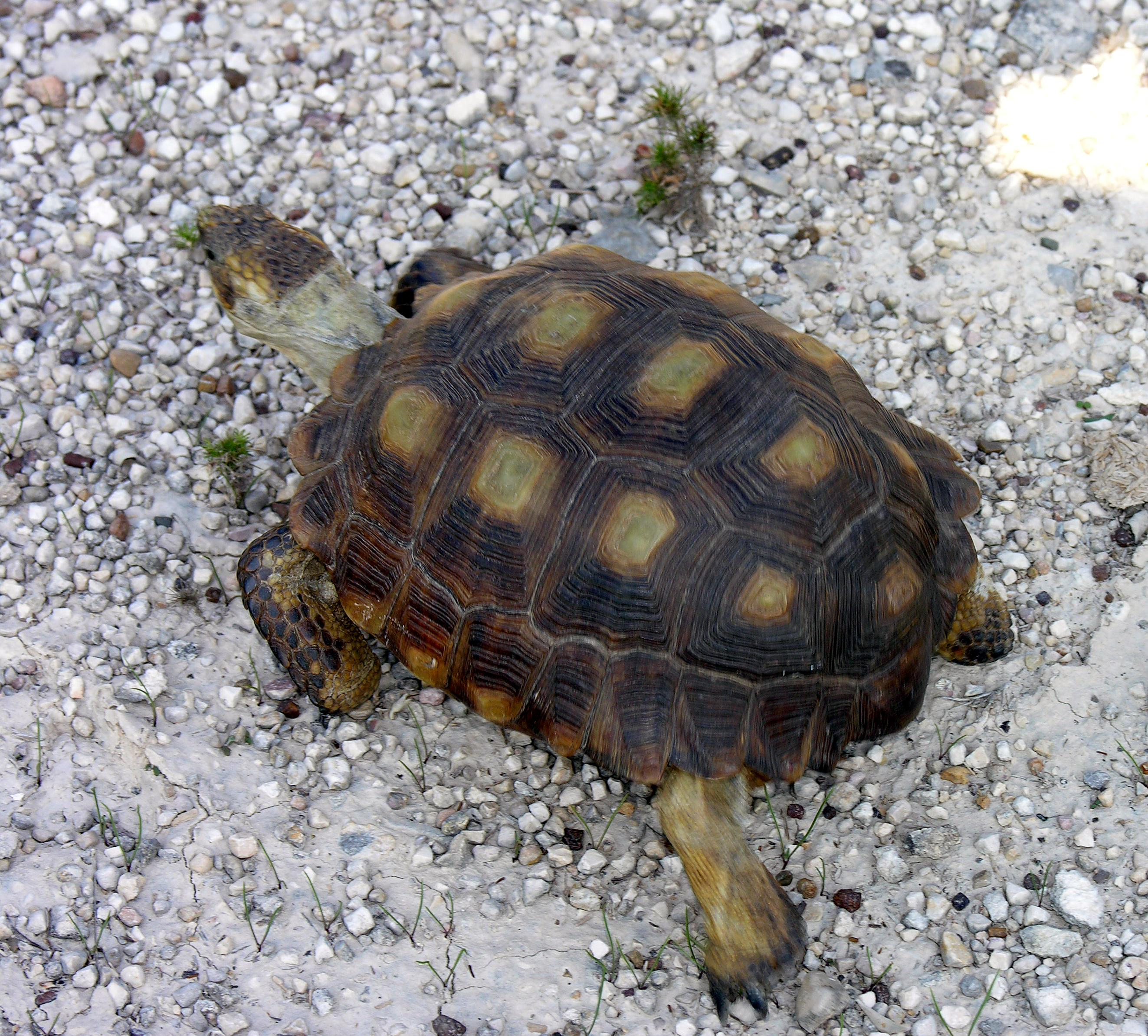 A low reproductive rate, historic heavy exploitation by pet suppliers, and other factors have led to a severe population decline of the species. This has resulted in its being listed in 1977 as a protected nongame (threatened) species, thus affording protection from being taken, possessed, transported, exported, sold, or offered for sale. Amistad Rec Area, San Pedro Campground road, Val Verde Co, Texas